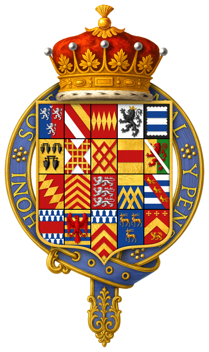 Coat of arms Sir Philip Herbert, 1st Earl of Montgomerey, KG